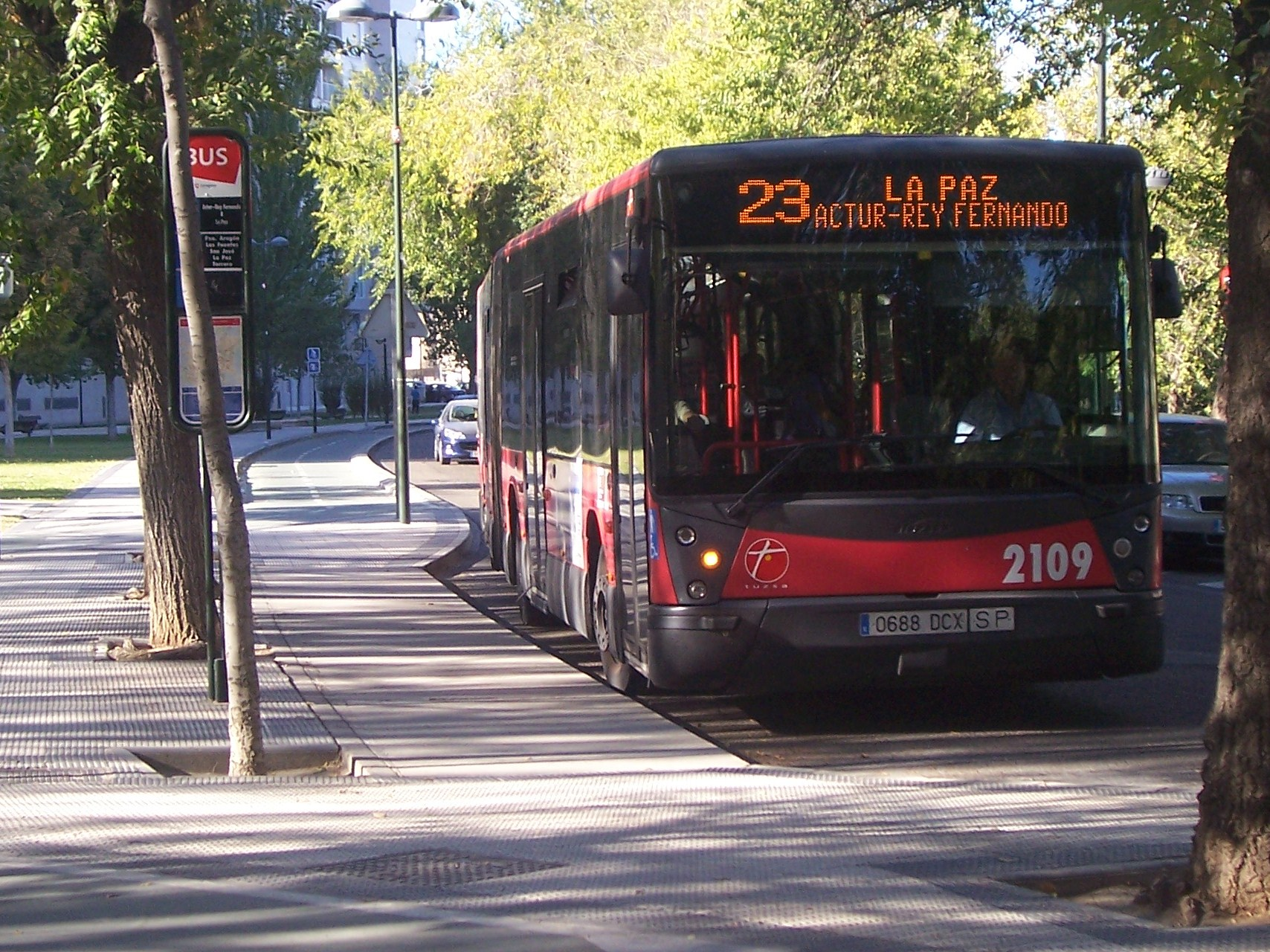 Bus number 2109 of TUZSA.